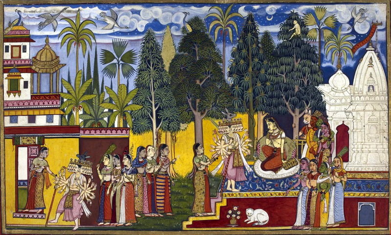 "Arrived on the island of Lanka, Hanuman has shrunk in size, and eventually finds Sita near a dazzling white temple in a grove of ashoka trees within the palace complex. She is seated on the ground like a female ascetic and sunk in melancholy. From his perch in a tree Hanuman can see her guarded by female demons and surrounded by Ravana's wives, the daughters of gods and other divine creatures whom he had already captured. Ravana, who has ten heads and twenty arms, comes to beg her to marry him, but she repulses him. If she does not change her mind, Ravana threatens, he will have her killed. One of his wives seeks to divert him, but he strides angrily away."